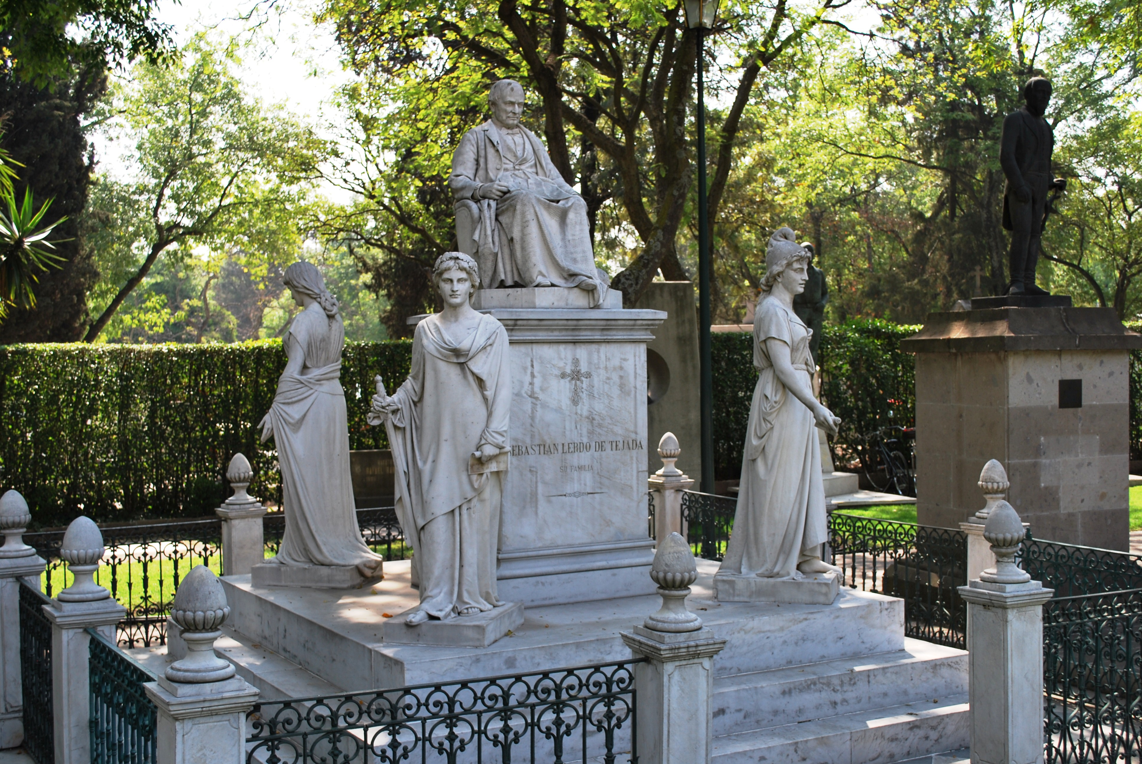 Tomb of Sebastian Lerdo de Tejada in the Panteon Civil de Dolores cemetery in Mexico City